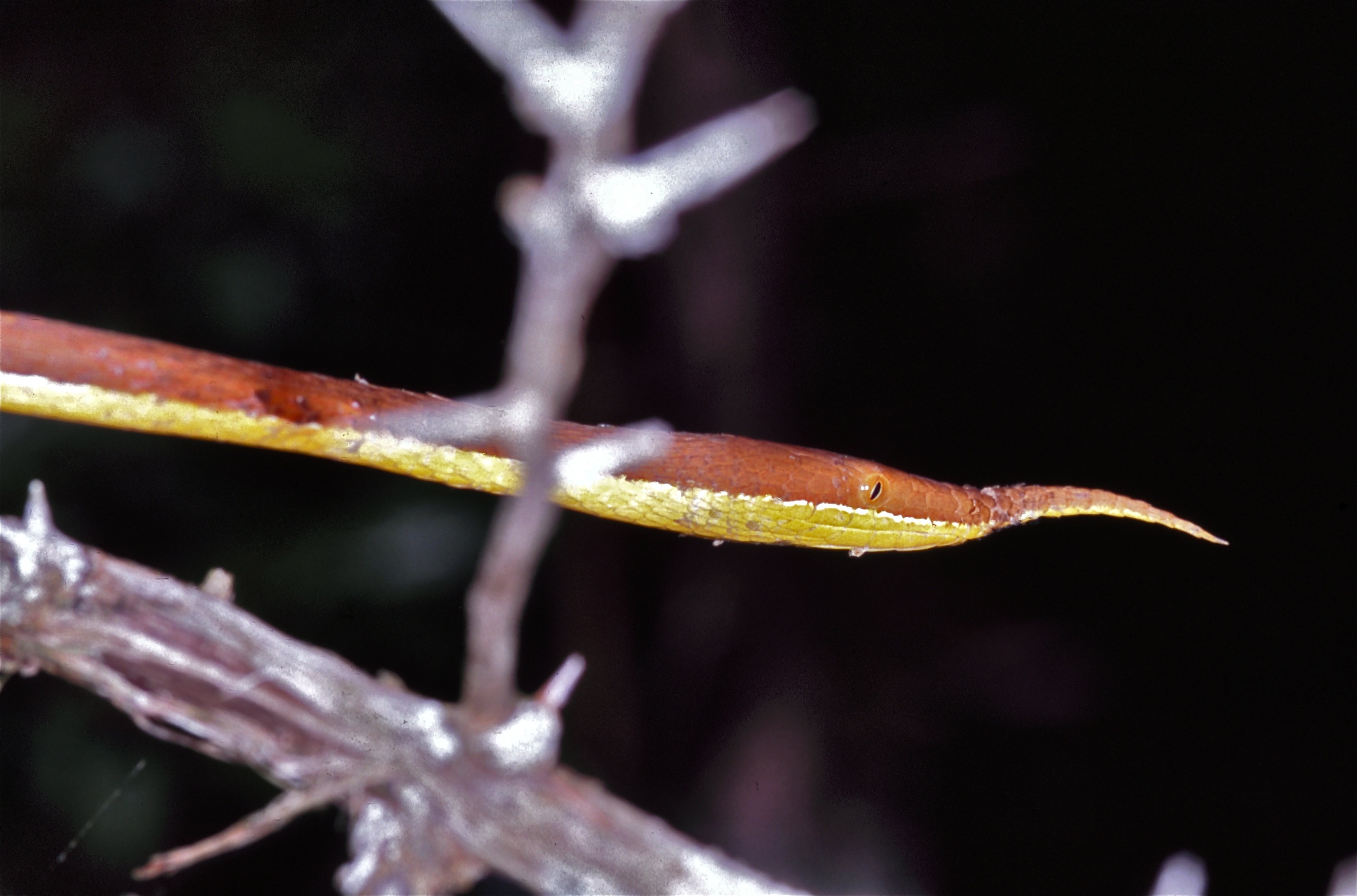 Réserve Peyrieras, Moramanga, MADAGASCAR Scanned Slide from 2004